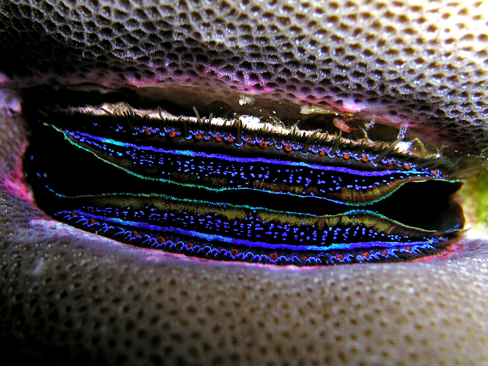 Pedum spondyloideum - coral scallop.